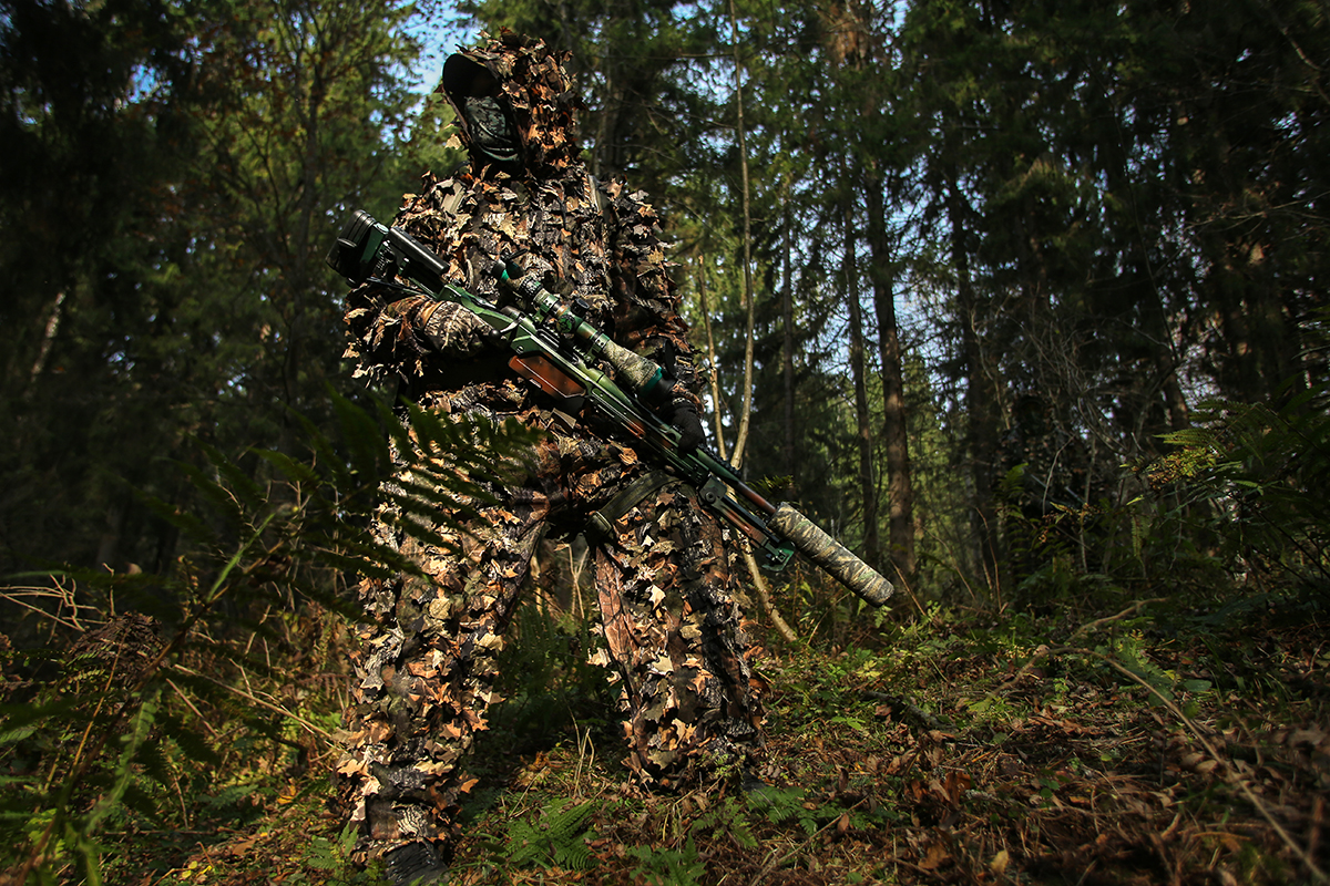 Russian Special Operations Forces photo from 27 February special operations forces day gallery.